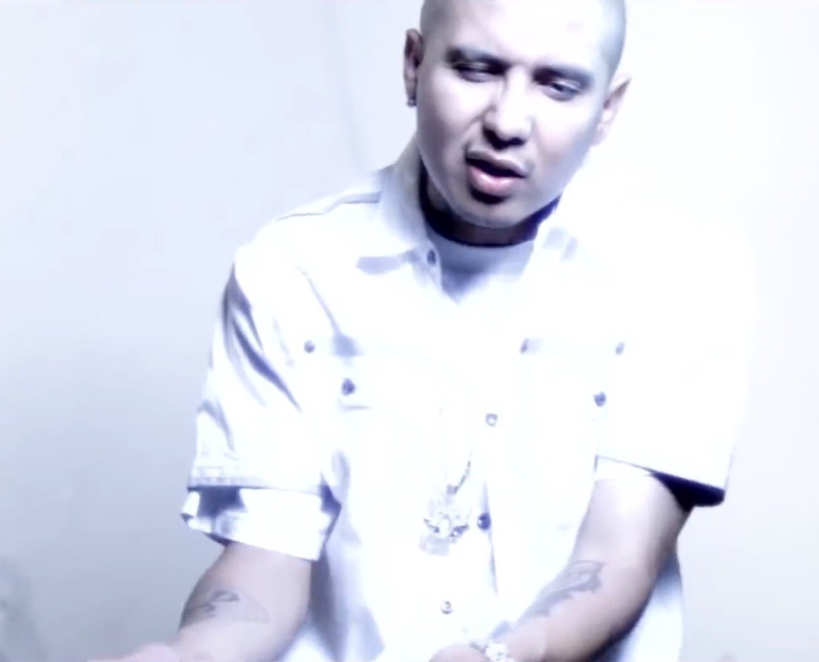 This file represents a Rapper front the south side of California